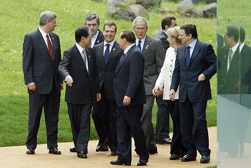 TOYAKO ONSEN, HOKKAIDO, JAPAN. Before a working meeting of the G8 summit.